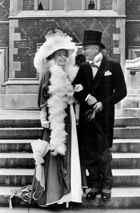 Photo of Katharine Hepburn and Laurence Olivier from the made for television film Love Among the Ruins. The film was shot in the UK for American Broadcasting Company in 1975 and had its first airing on the ABC Network in the same year. This was a re-broadcast of the 1975 film.